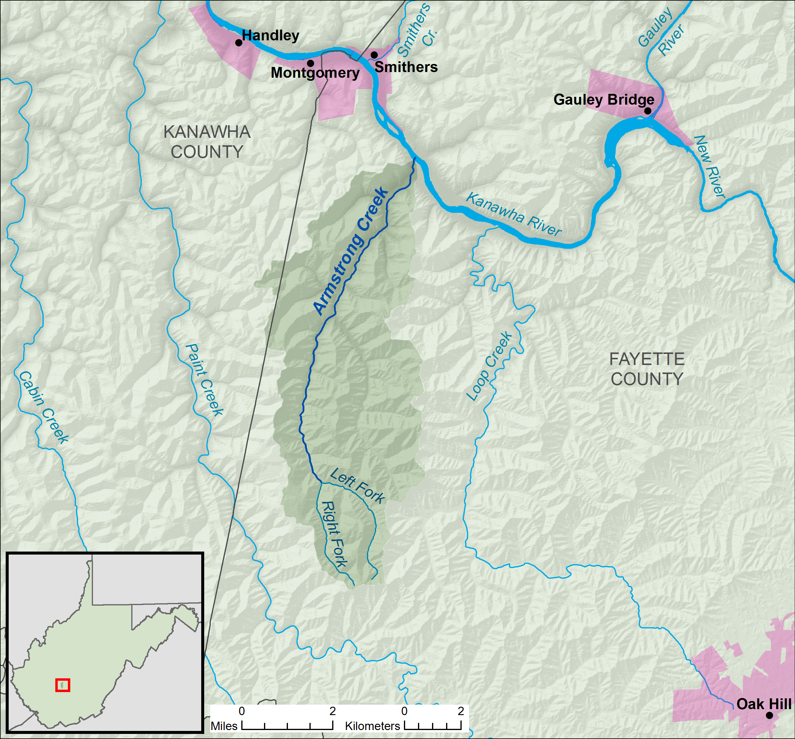 A map of Armstrong Creek and its watershed (USGS HUC-12 code 050500060302), in Fayette and Kanawha counties in West Virginia.